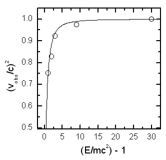 plot of relativistic KE data; data points are from William Bertozzi, Am. J. Phys. 32, 551 (1964)